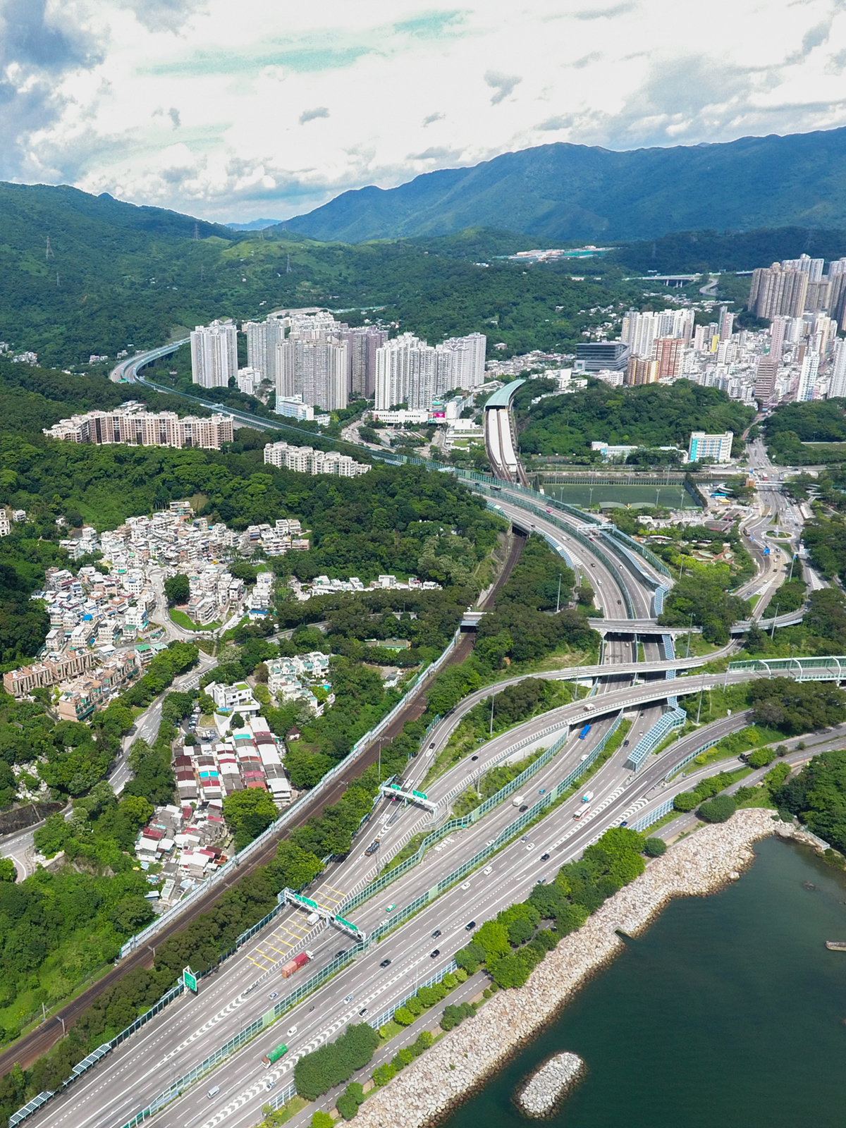 Tolo Highway Tai Po section aerial view